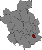 Location of Ripollet in Vallès Occidental